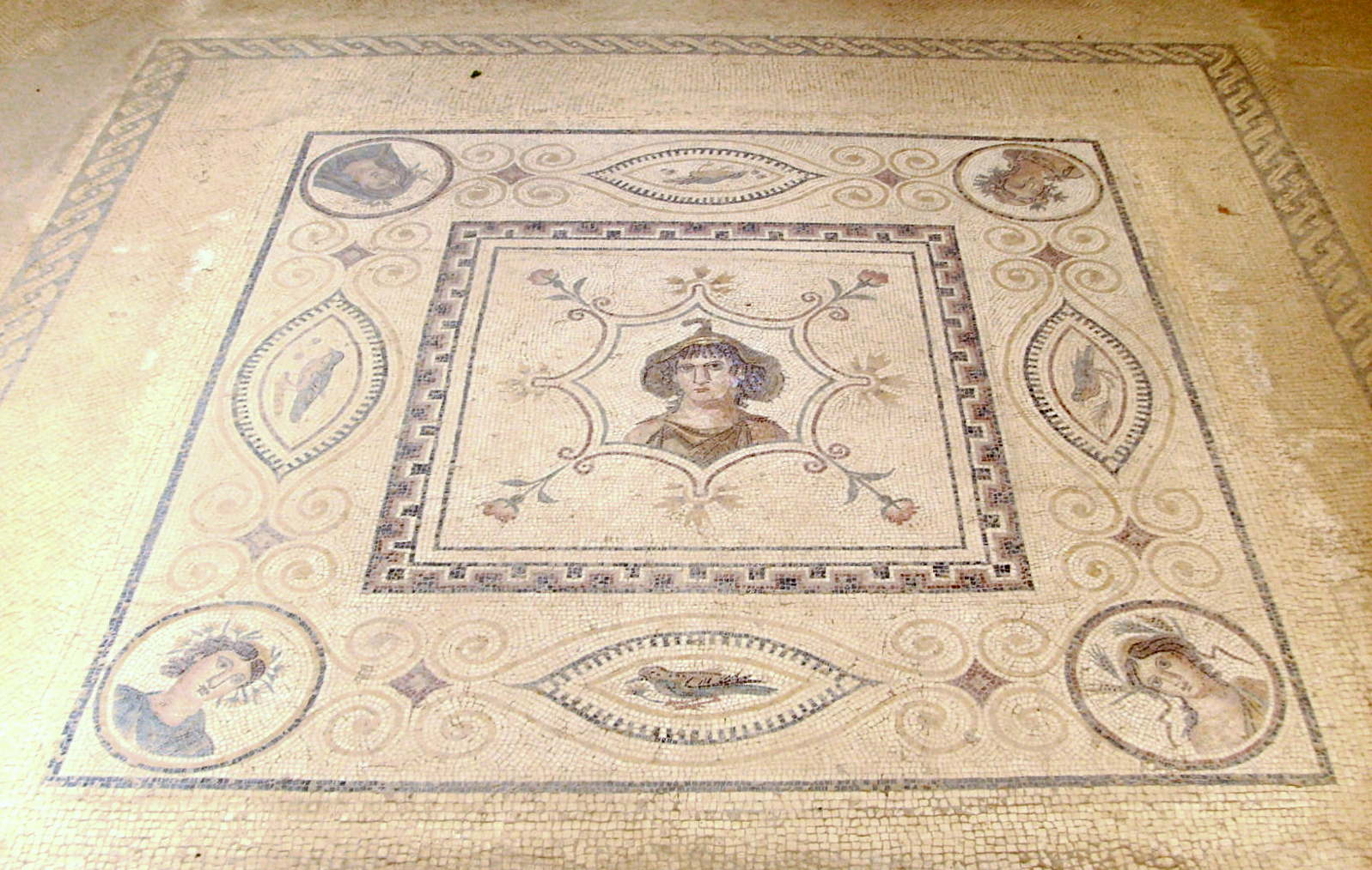 Africa and the Four Seasons. A mosaic in the archaelogical museum of El Jem